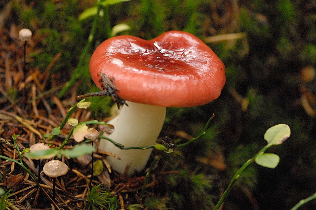 Russula emetica and Gymnopus perforans from Commanster, Belgium. The determination of the species shown in this picture has been verified.